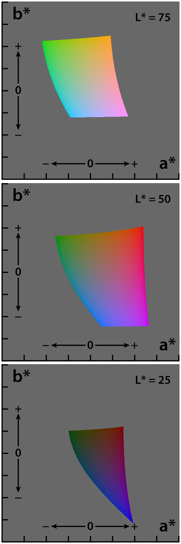 The CIE L*a*b* color space, only showing colors which can be represented within the gamut of the sRGB color space. This is a raster (png) version of the file Image:Lab color space.svg